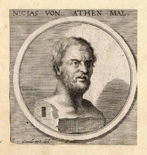 Portrait of Nicias of Athens. Size: 10 x 10 cm (3.9 x 3.9 inches). Original copperplate engraving on vierge (with chainlines) type paper.